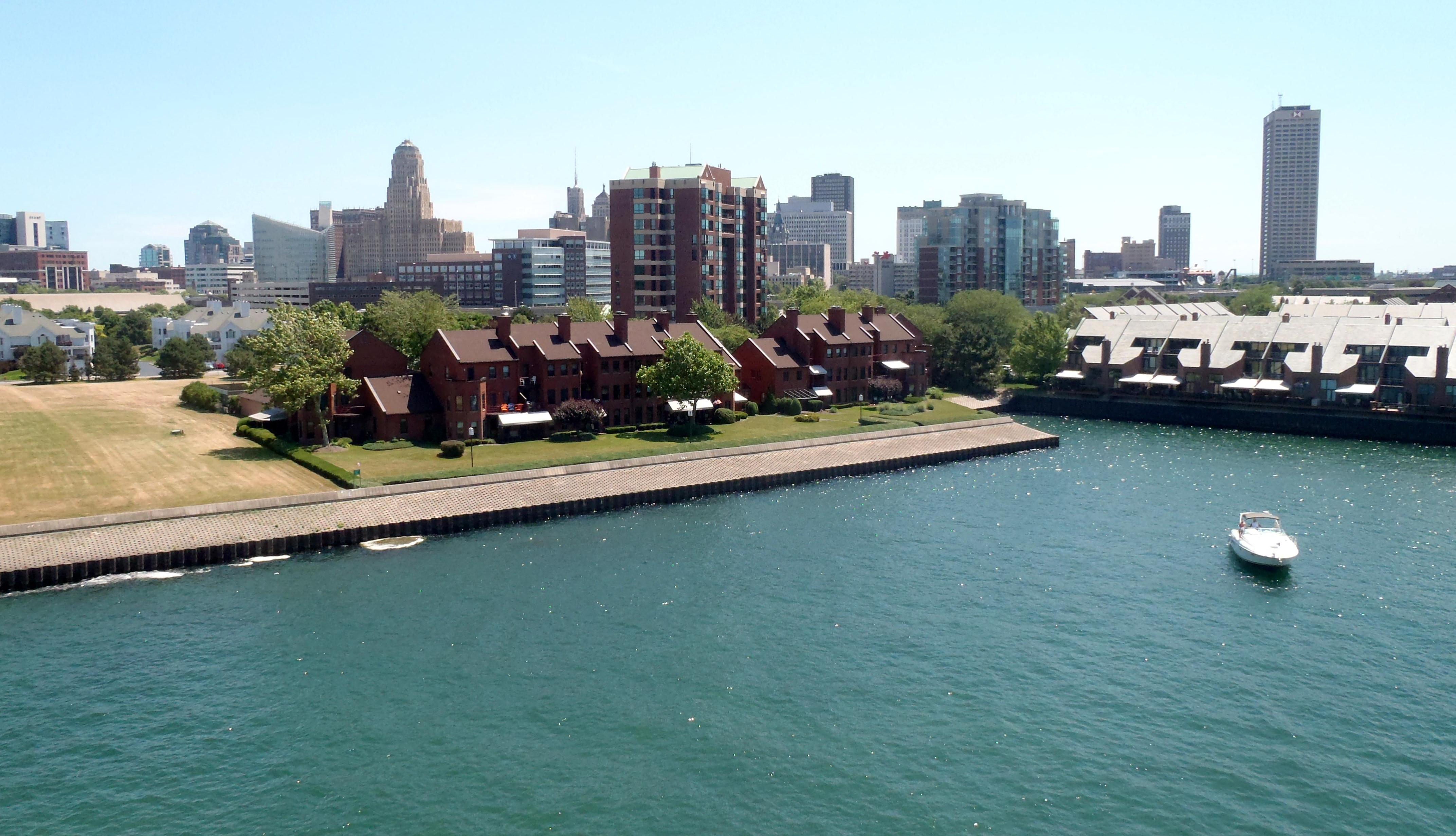 View of downtown Buffalo, New York from the erie basin marina observation tower